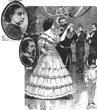 A military ball at Union Hall on November 17, 1863, given to Admiral Popoff and thirty-five officers of the Russian fleet then anchored in the bay of San Francisco